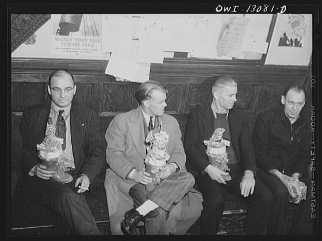 New York, New York. Merchant seamen who have won boots-full of candy at the Christmas party held for them at the Andrew Feruseth Club on Christmas Day.